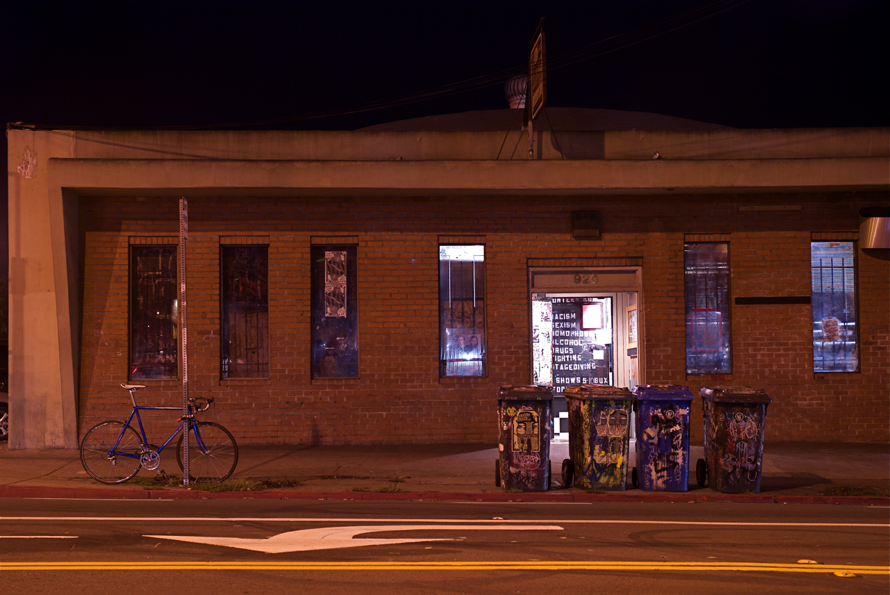 924 Gilman Street in late 2009.